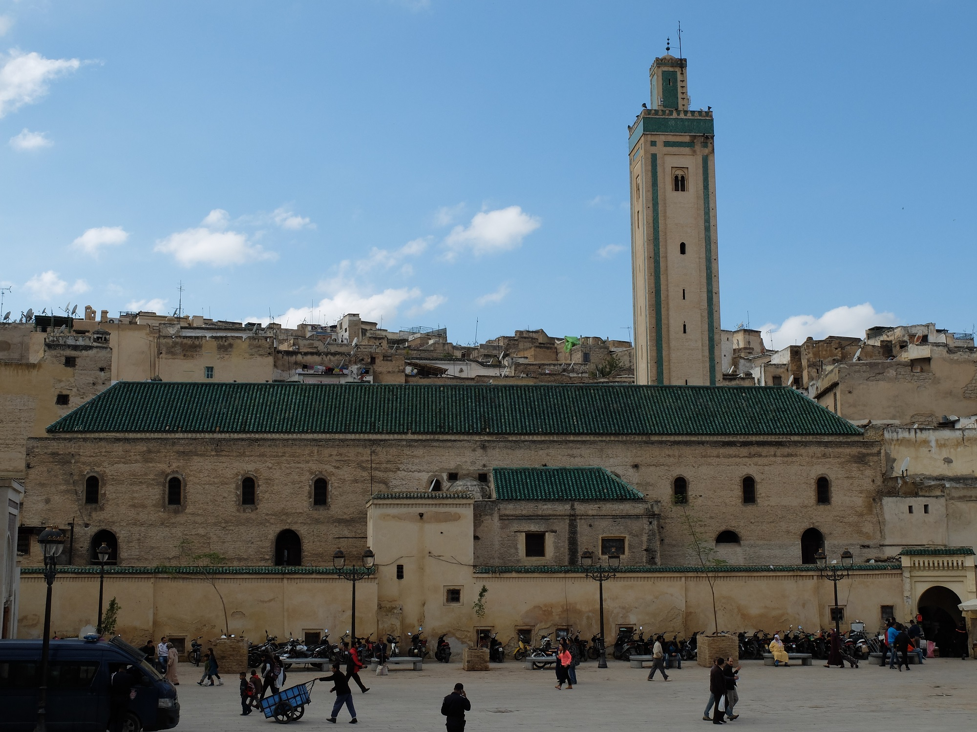 R'cif Mosque, overlooking Place R'cif, in the heart of the medina of Fez.